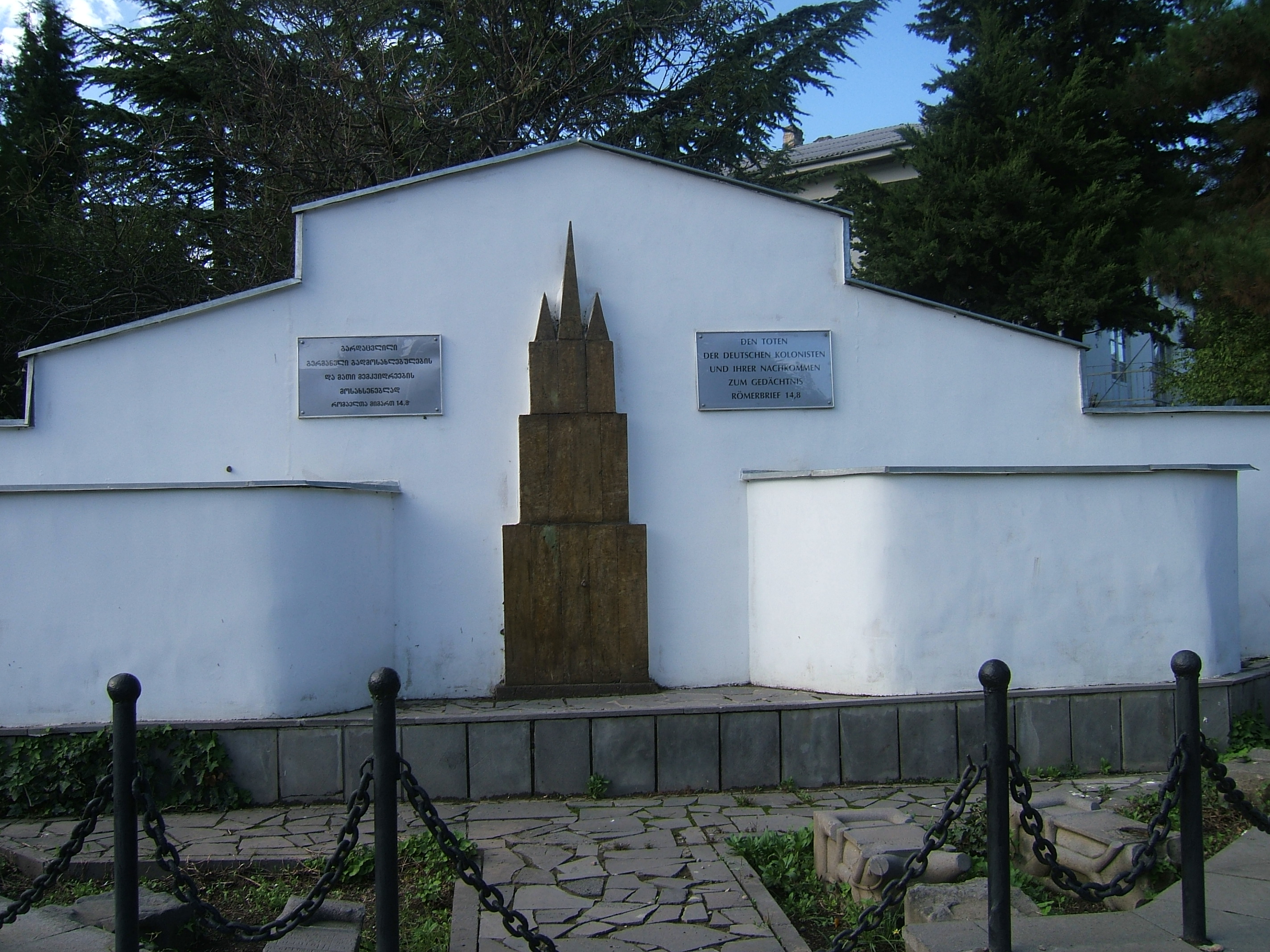 Memorial for the expelled German population and their victims (bilingual Georgian/German)